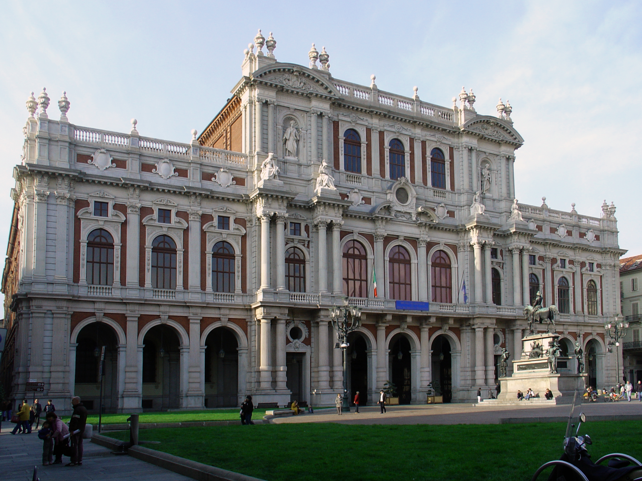 Palazzo Madama in Turin: main façade, from Piazza Carlo Alberto.